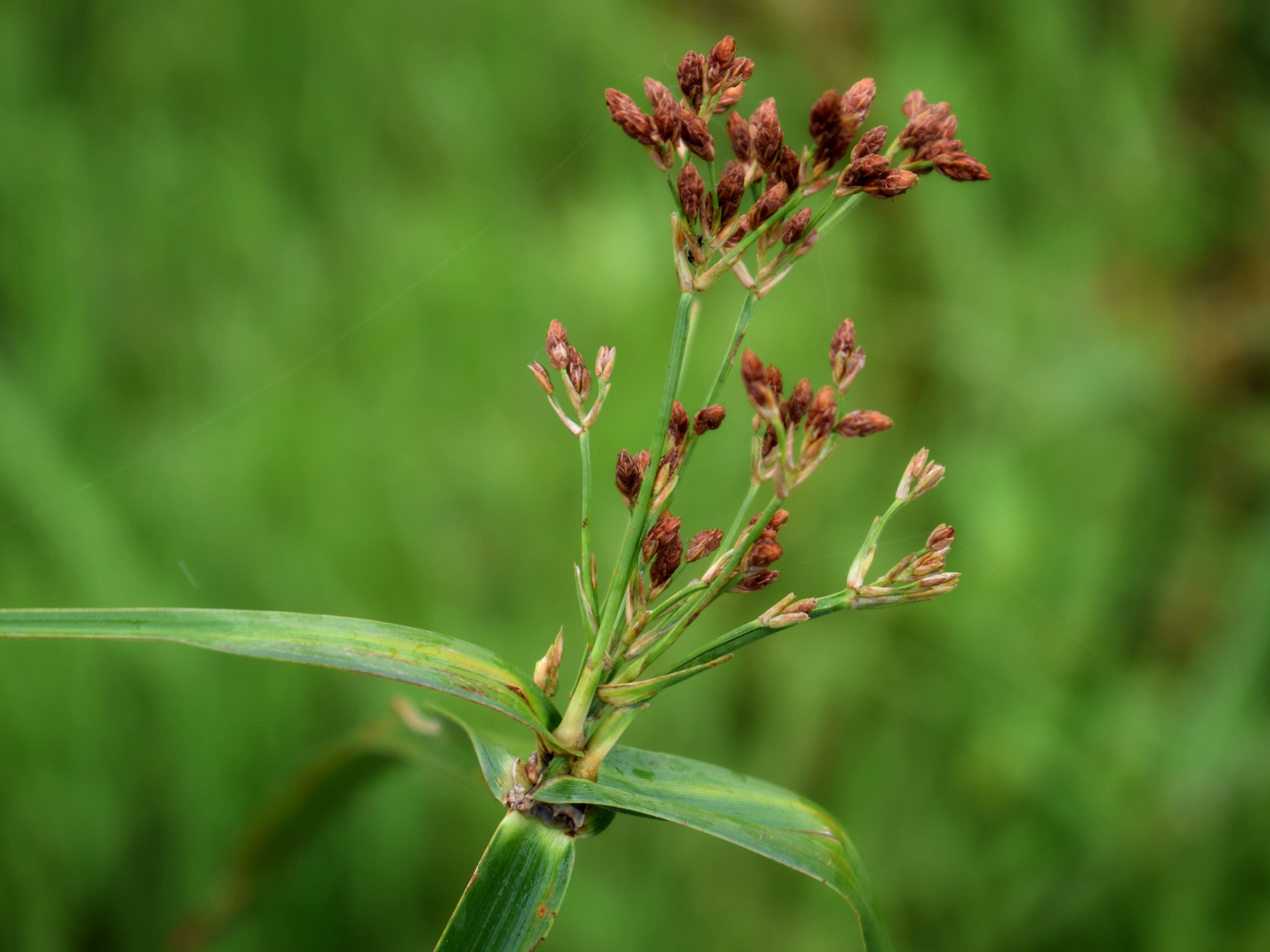 Actinoscirpus grossus. From Kerinci, Sumatra, Indonesia. Inflorescence.